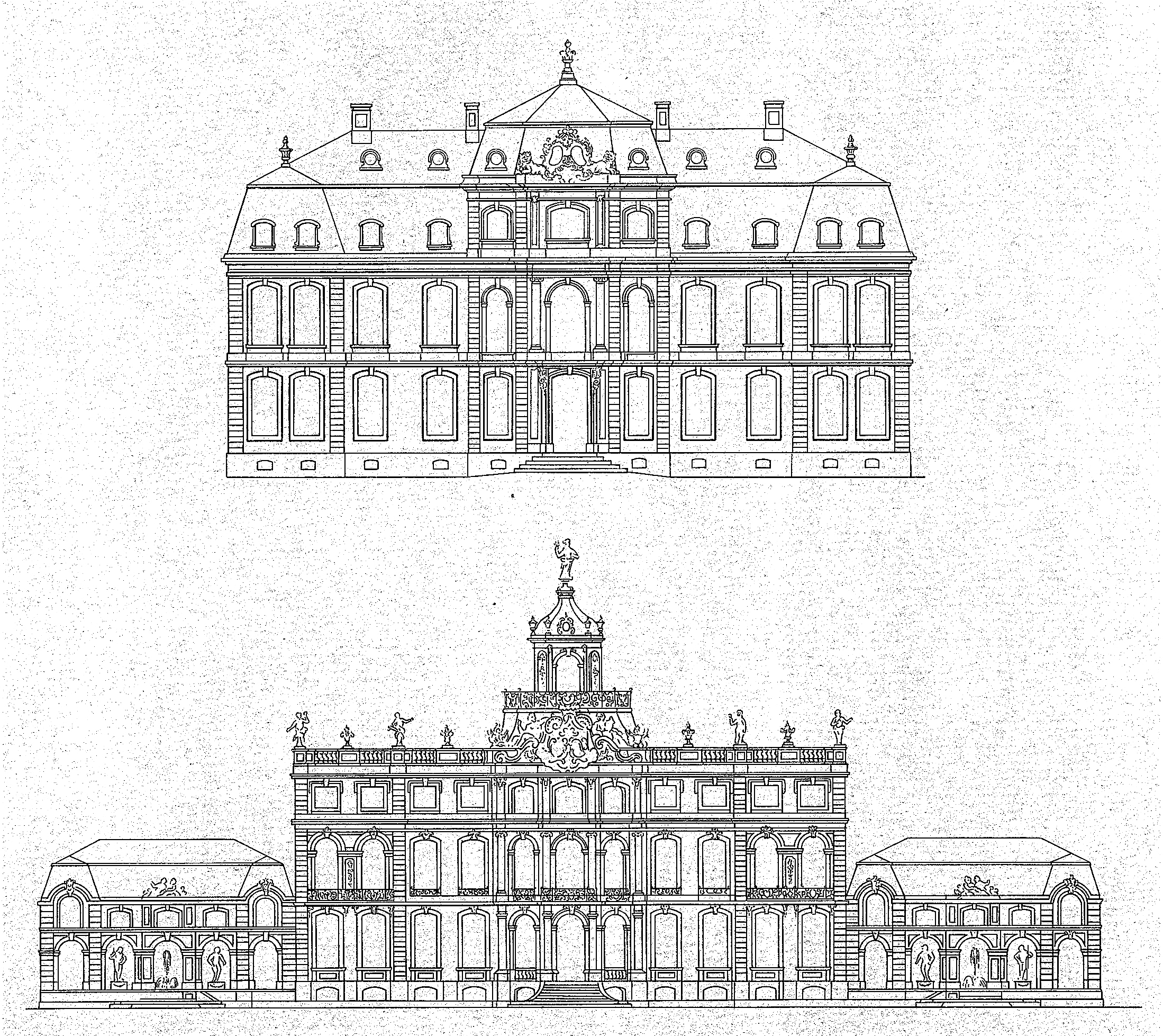 t